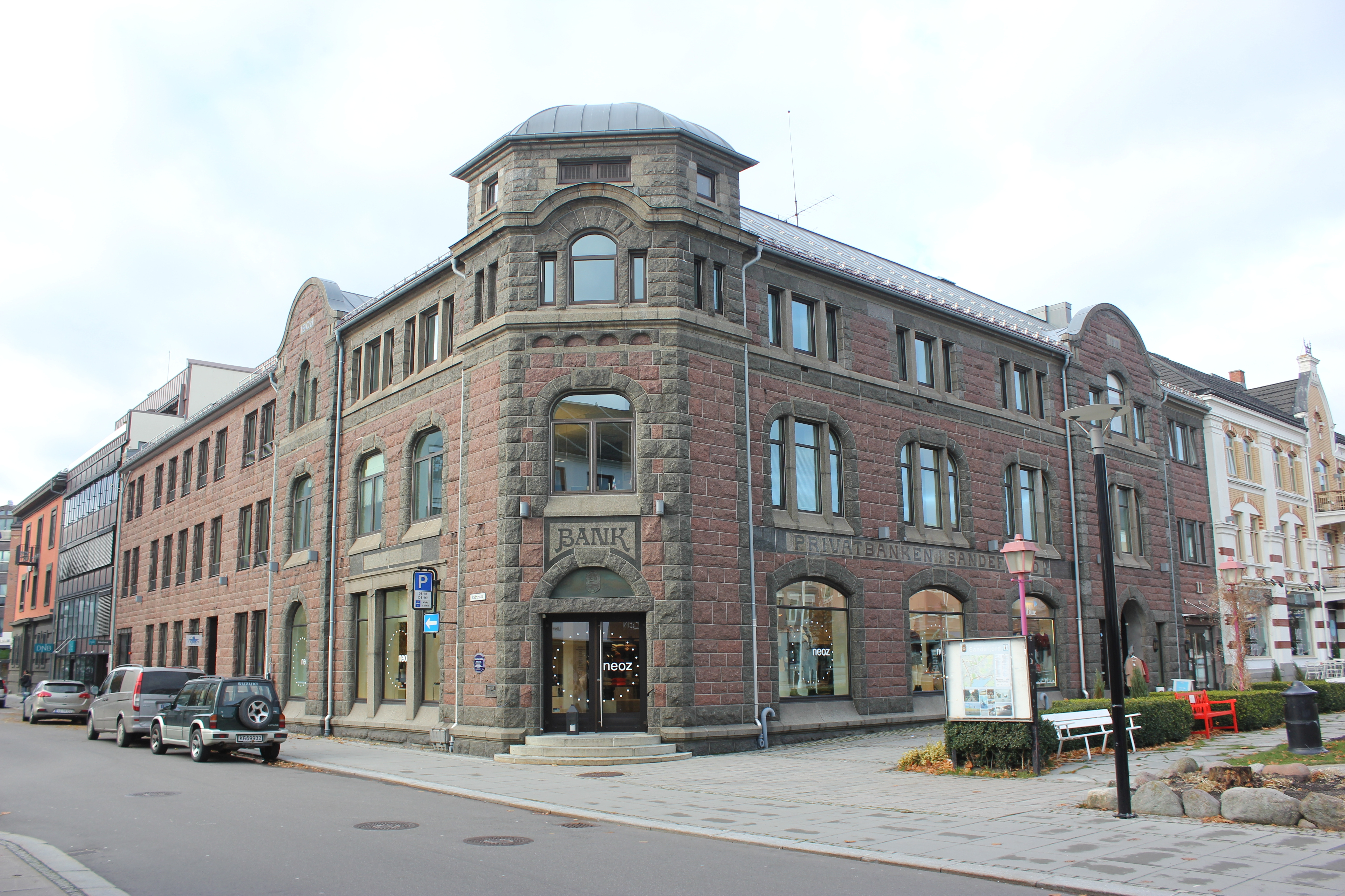 Sandefjord - bank building at 11 Rådhusgata